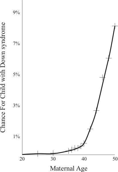 Maternal Age Effect for Down syndrome using Hook data. Created by me. Hook, E.B. (1981). "Rates of chromosomal abnormalities at different maternal ages". Obstet Gynecol 58: 282.